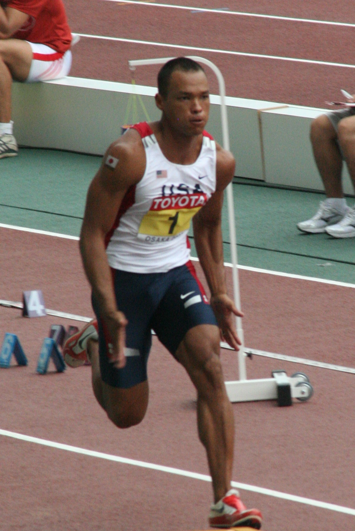 World Athletics Championships 2007 in Osaka - Decathlete Bryan Clay during a long jump attempt